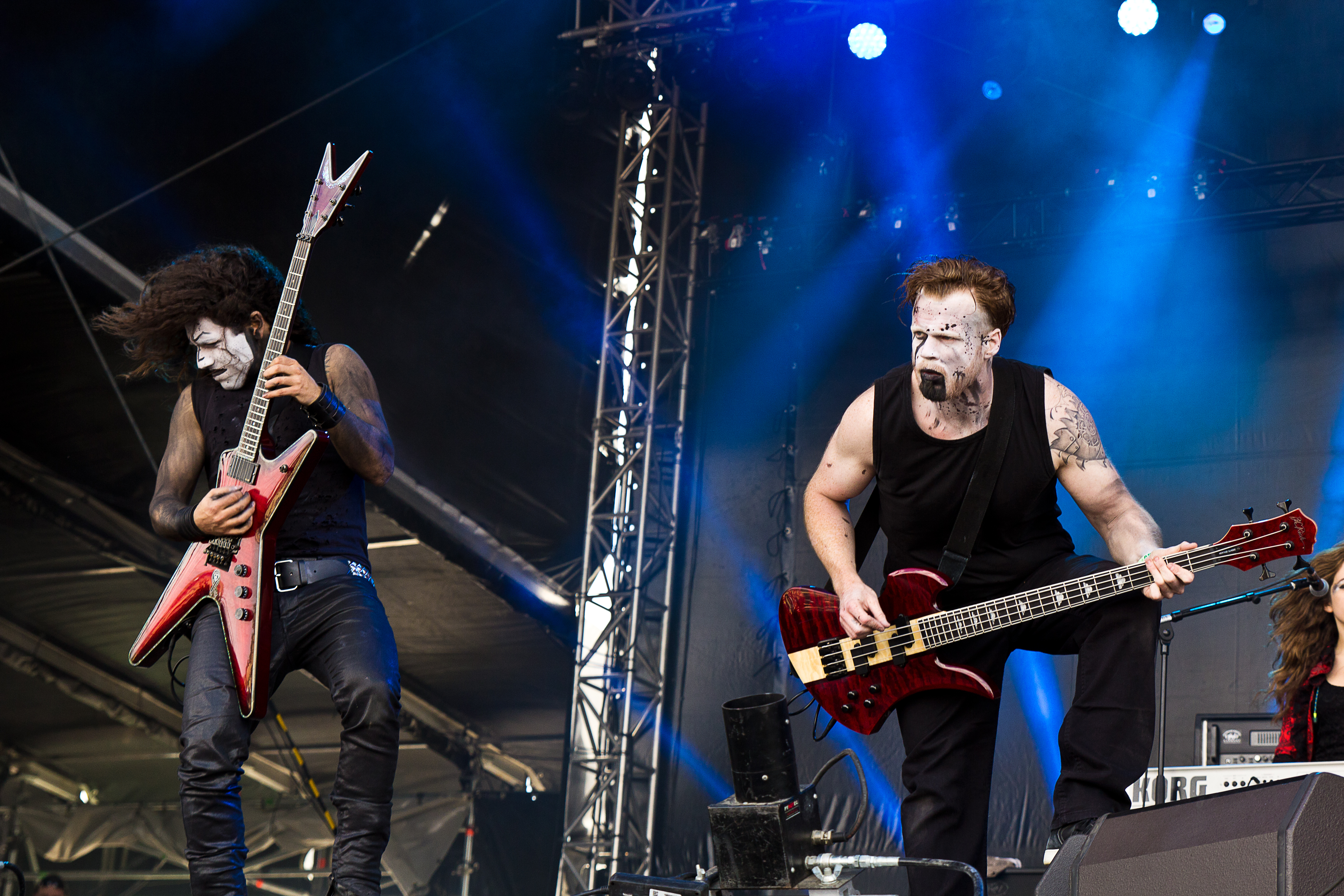 The British extreme metal band Devilment at the Rockharz Open Air 2015 in Ballenstedt/Germany.